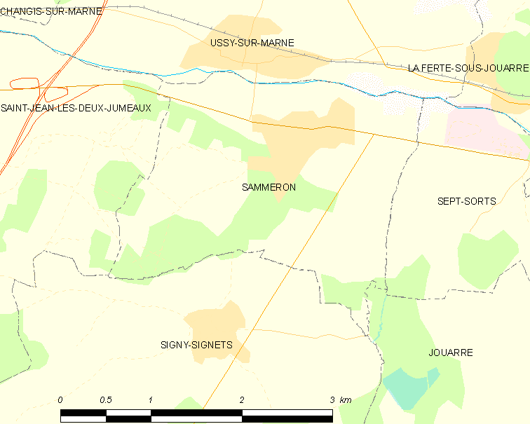 Map of French municipality Sammeron